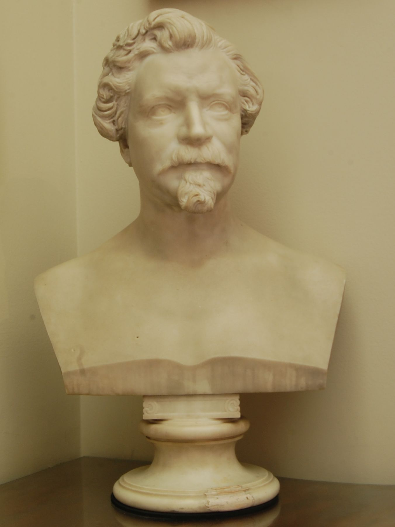 Bust of August Wilhelm von Hofmann, in the collection of the Royal Society of Chemistry, at it's Burlington House, London, headquarters.